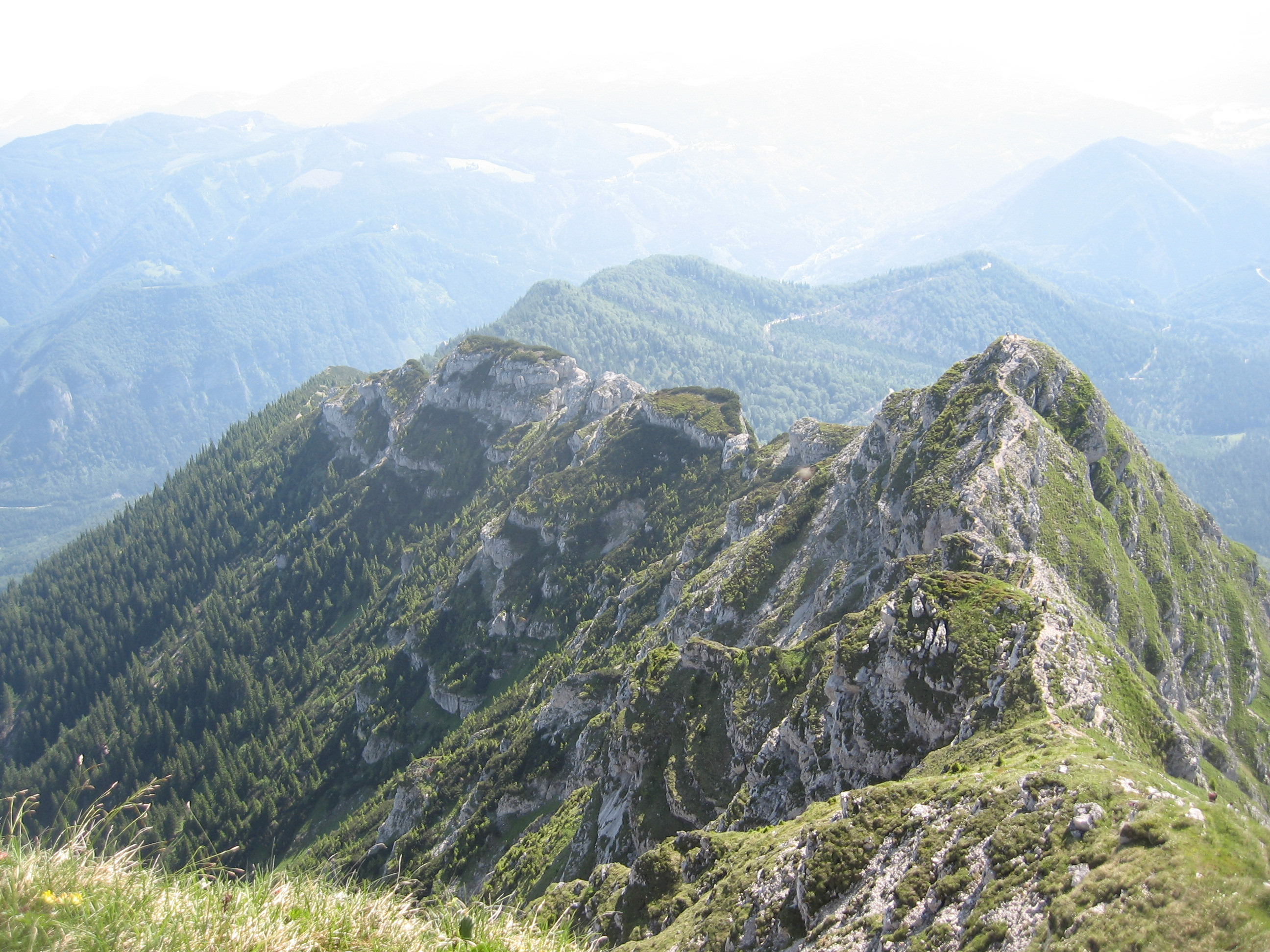 Rauher Kamm at Ötscher, Austria